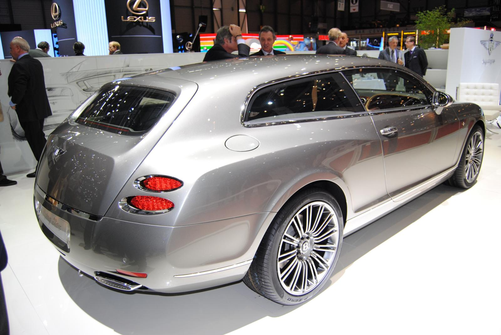 Bentley Flying Star by Carrozzeria Touring Superleggera based on a Continental GTC